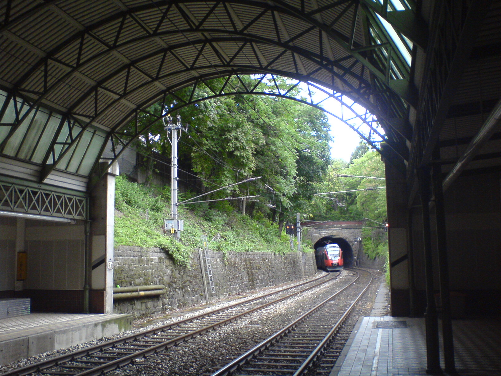 Train of the Vienna S-Bahn (suburban Metro railway) arriving at the station Krottenbachstraße